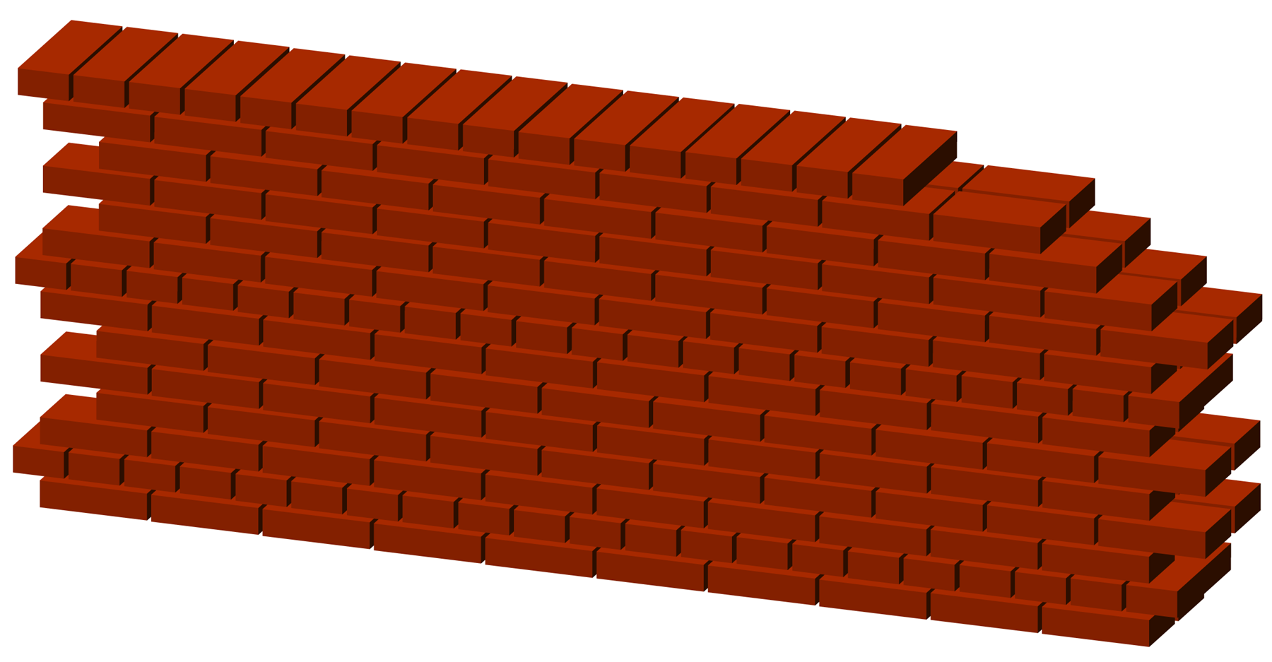 American bond. 3-5 courses of stretchers half brick overlap between two header courses.